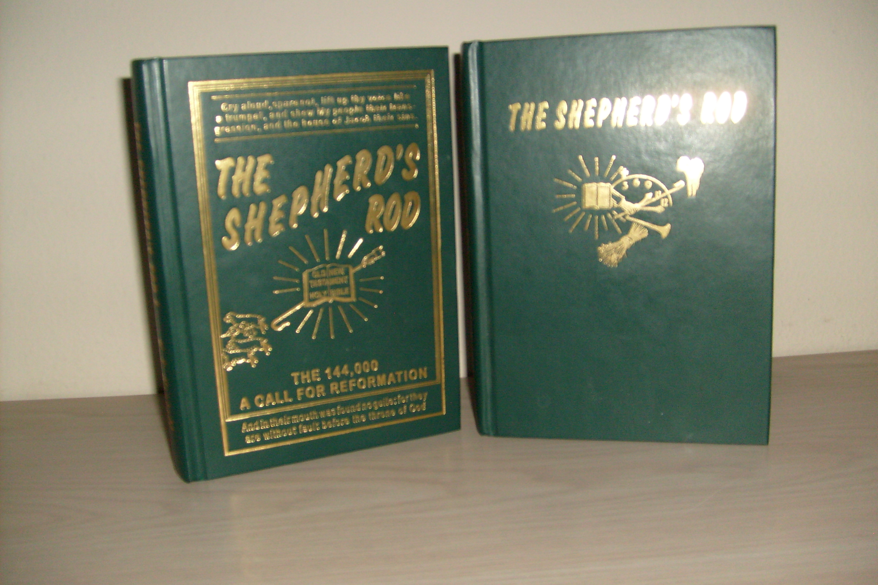 The Shepherd's Rod, Volume 1 and 2. The first publications of the Davidian movement, published in 1930 and 1932 respectively.